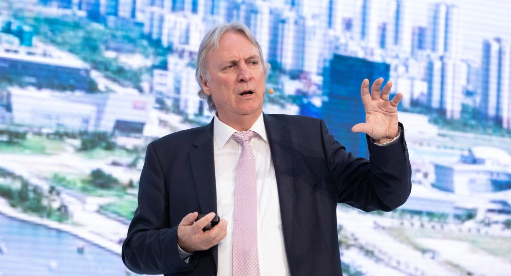 Prof. Dr.-Ing. Peter Gutzmer, Deputy CEO and Chief Technology Officer of Schaeffler AG